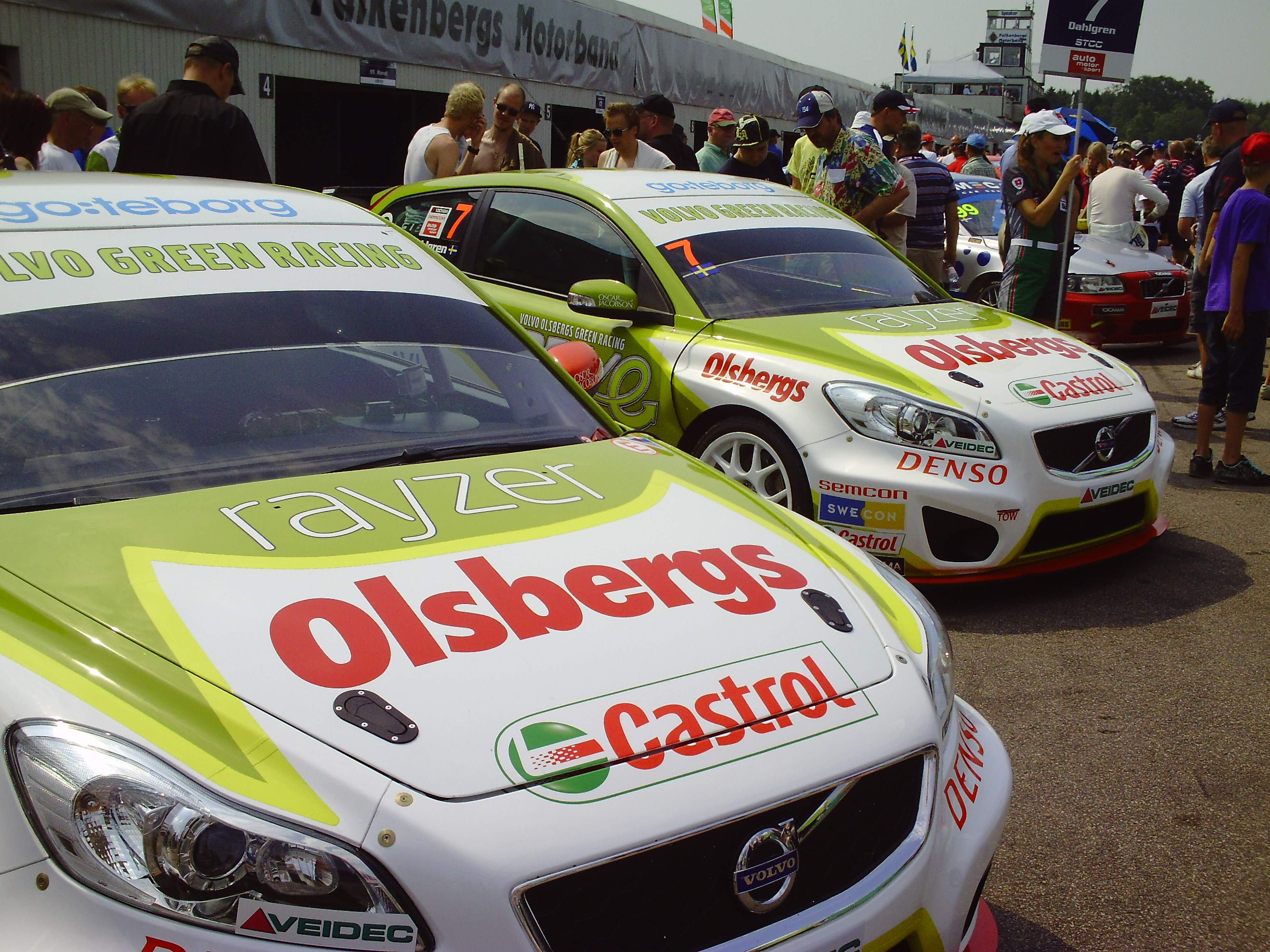 Polestar Racing's Swedish Touring Car Championship Volvo C30 cars (Tommy Rustad and Robert Dahlgren) in the pit at Falkenbergs Motorbana 2010.